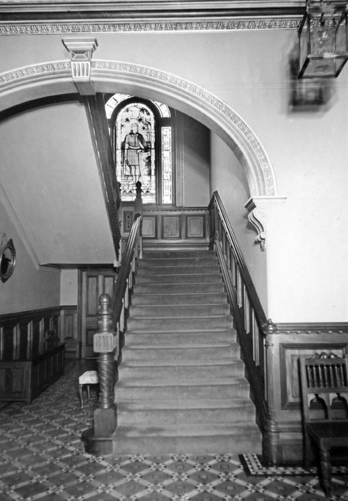 View at Government House, Main Stairway, stained glass window shows Robert Bruce. (Fernberg Road, Paddington. Alternative name is Fernberg.)